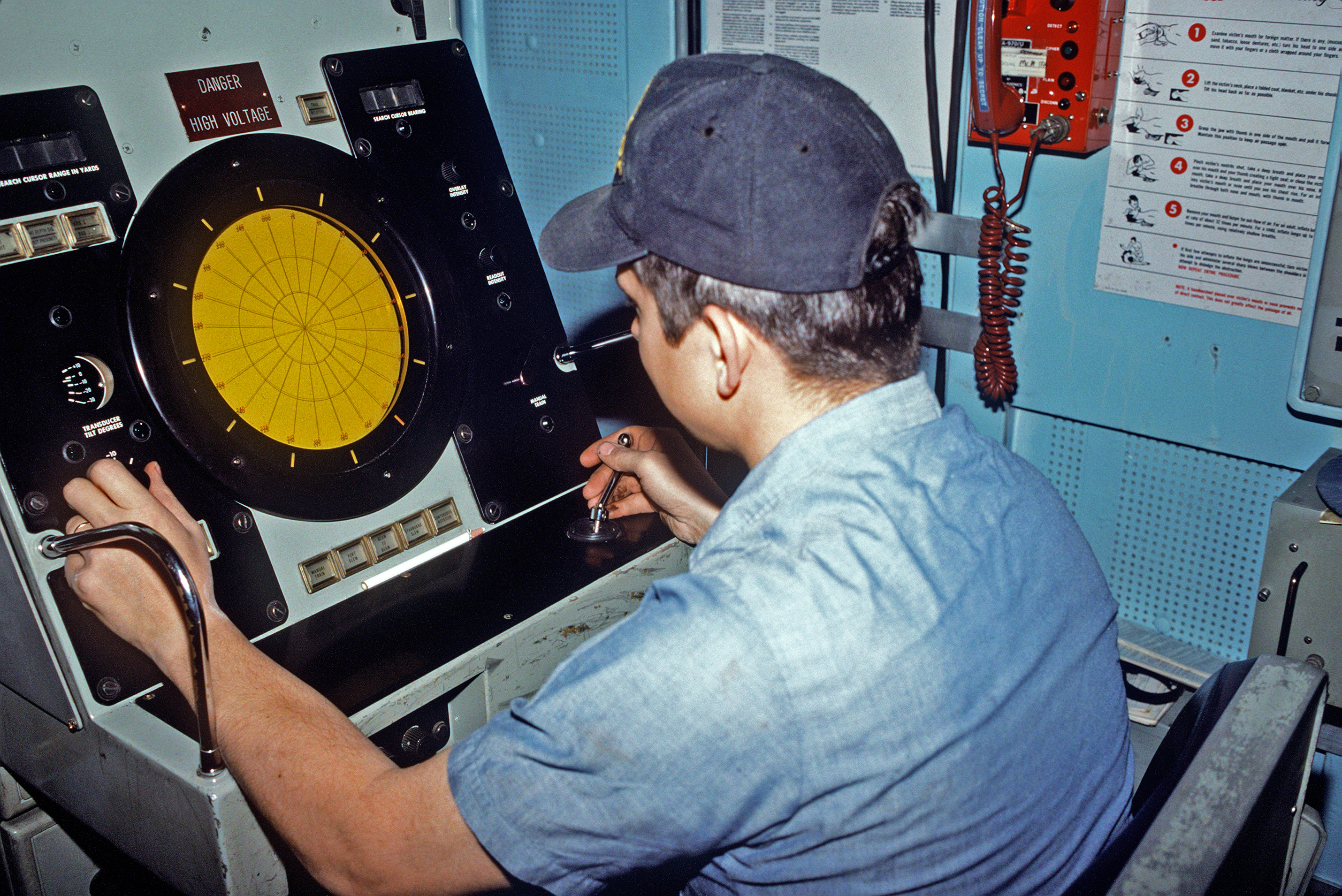 A crewman, STG1 (SW) Pudim, monitors a mine detection and classification console aboard the ocean minesweeper USS CONQUEST (MSO 488) in the Persian Gulf.